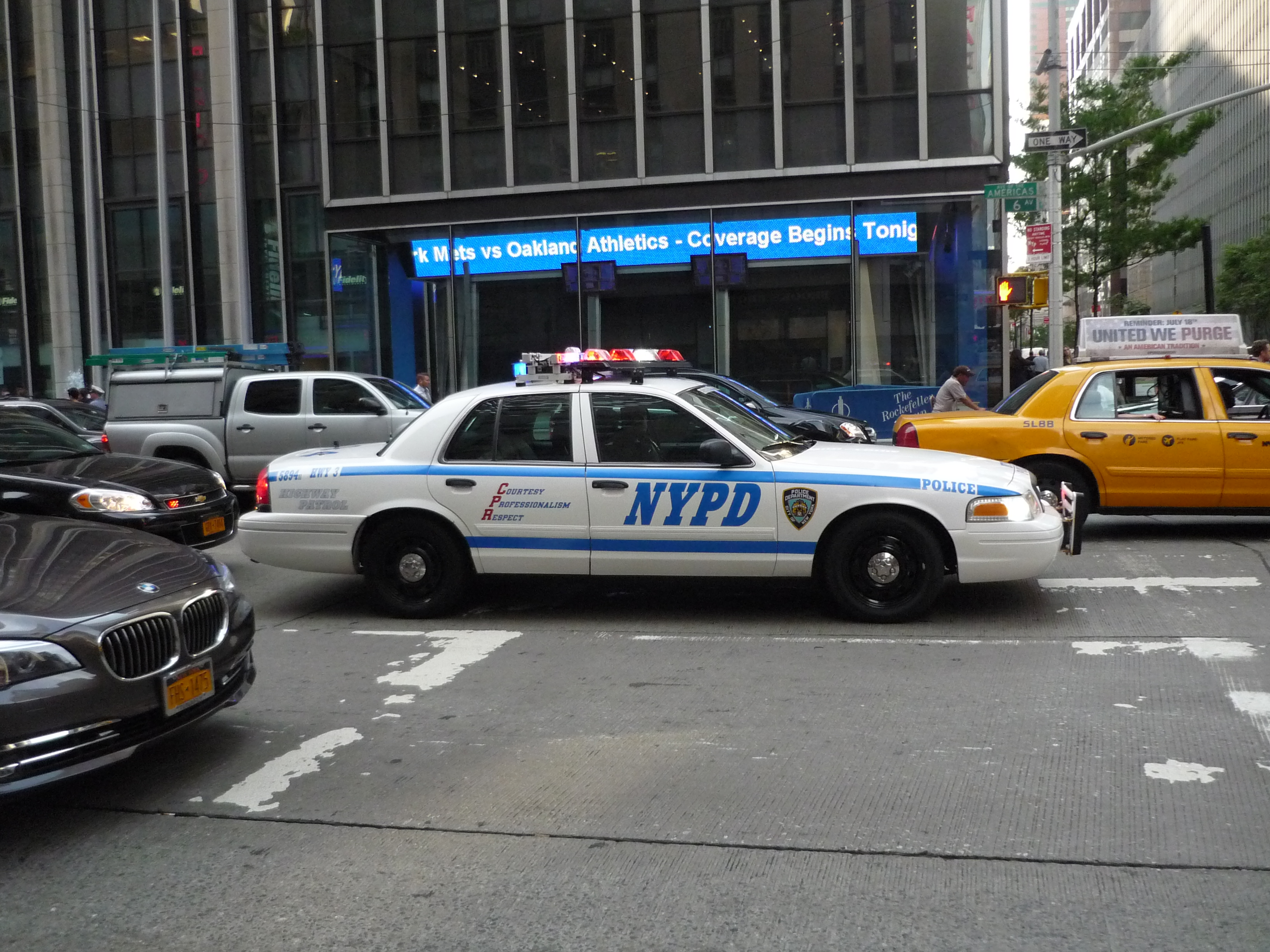 These are becoming increasingly hard to spot in NYPD colors, supplanted by legions of Fusion hybrids and a few new Taurus Police Interceptors. In a couple of years we may very well no longer see the venerable Crown Vic in NYPD service.